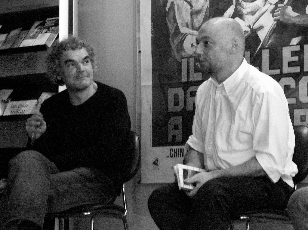 Patrik Ouředník and Paolo Nori in Reggio Emilia.